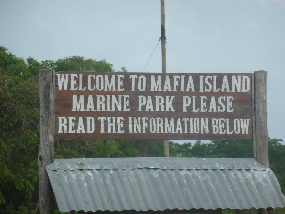 Incredible pics from our Tanzania Marine project/camp. If these don't make you want to come out, nothing will!! Get more info here: bit.ly/JUD6Fl